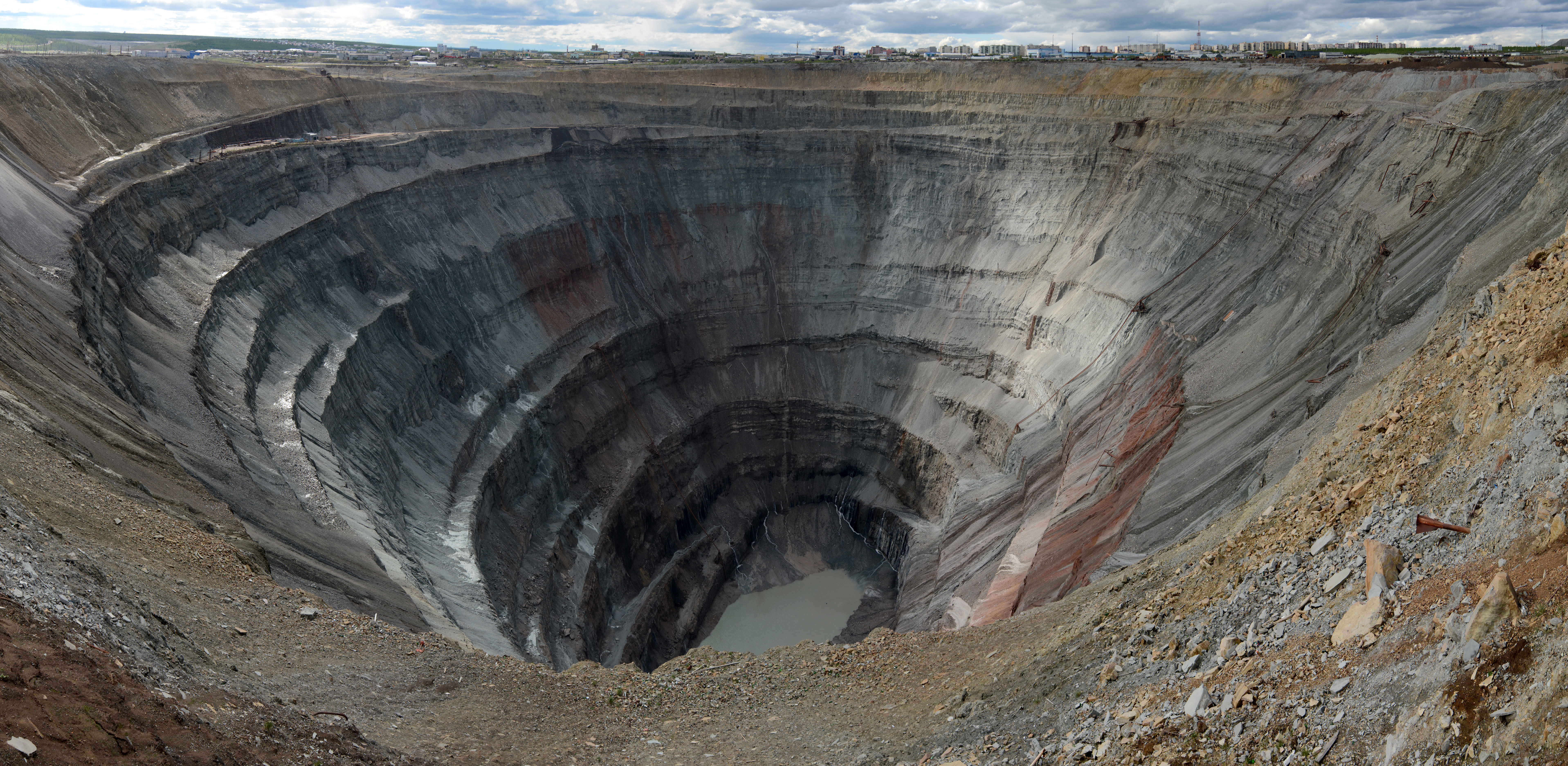 Mir mine. Mirny. The Republic of Sakha (Yakutia). Far Eastern Federal District. Russia.